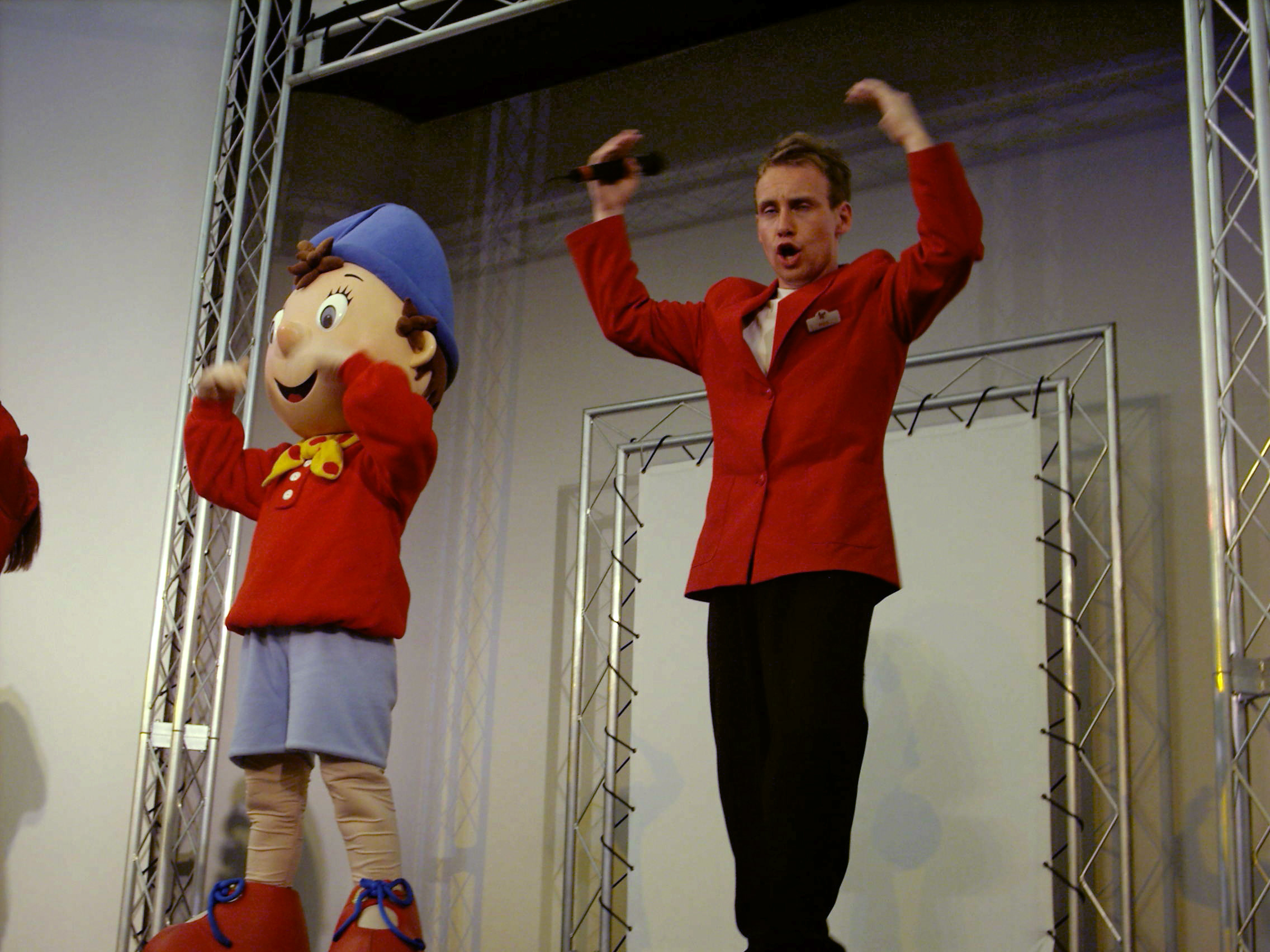 Image: Redcoat (Butlins) Photograph taken shortly after the uniform was redesigned in 2006.